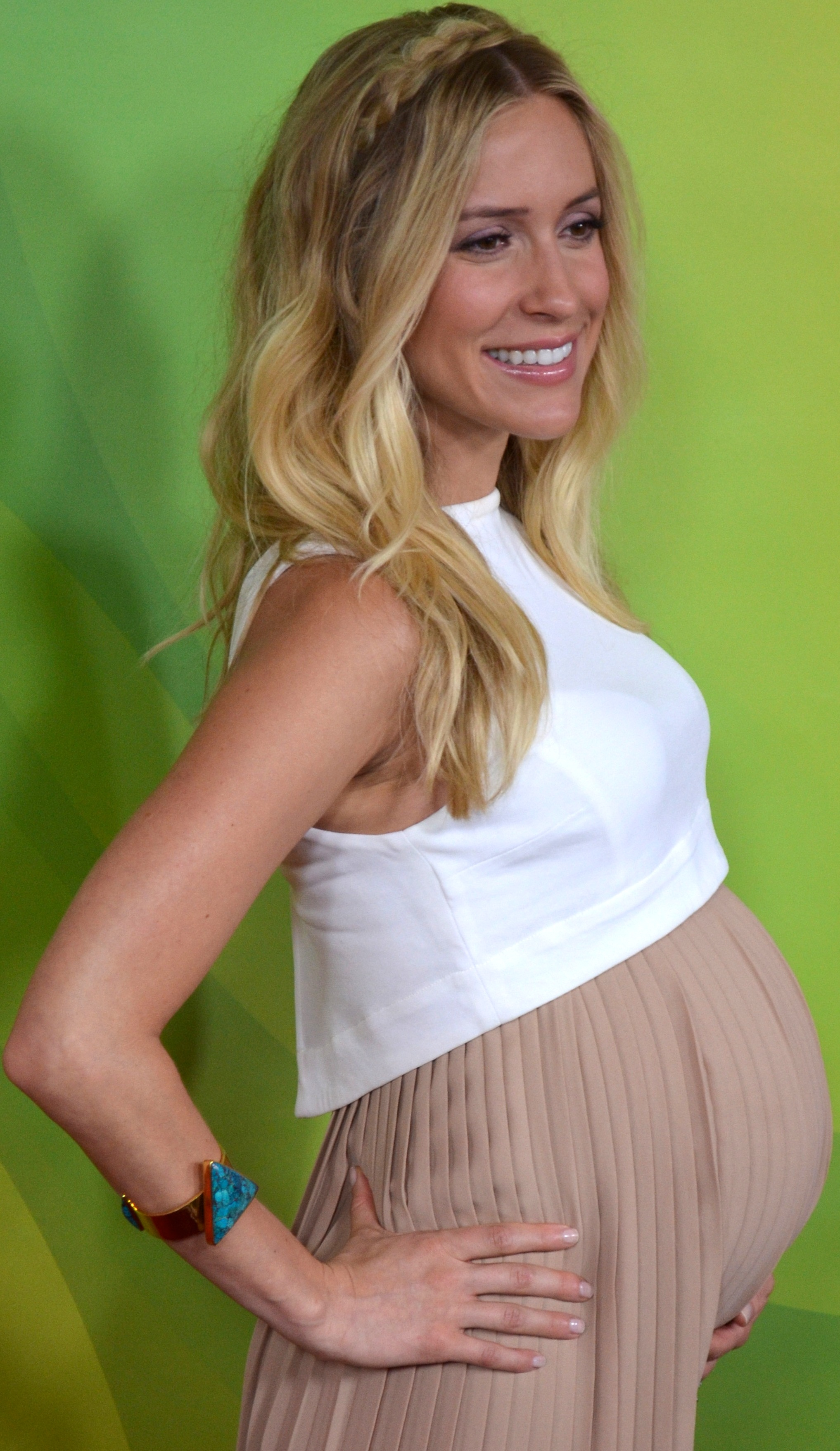 Kristin Cavallari at the NBCUniversal Summer press day in Pasadena at the Langham Huntington Hotel.